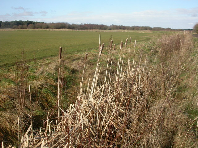 East Parley, bulrushes Weather-beaten bulrushes in a ditch alongside the East Parley to Trickett's Cross bridleway. For more information about this plant